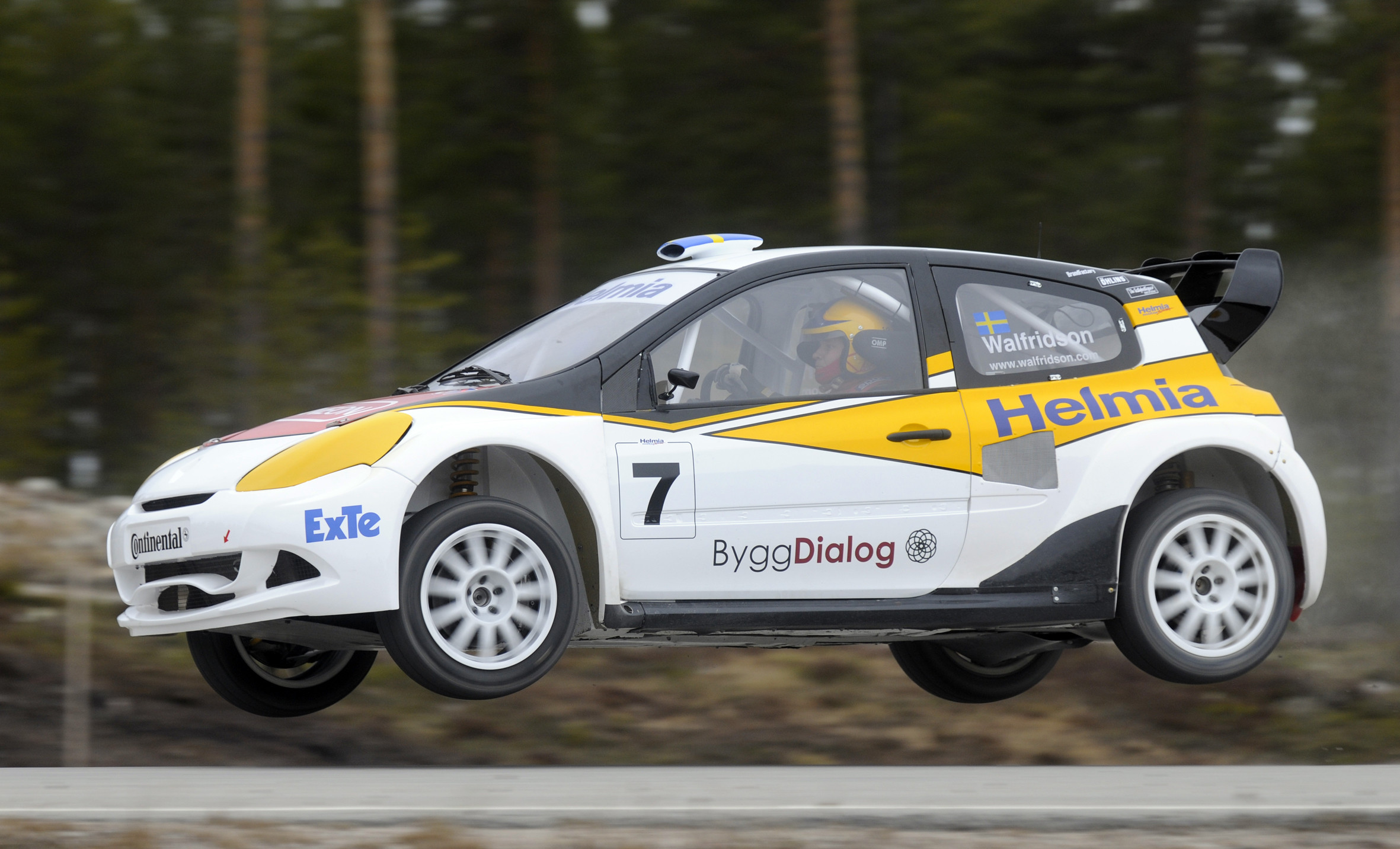 Swedish rallycross driver Stig-Olov Walfridson testing his new Renault Clio III Division 1 car.